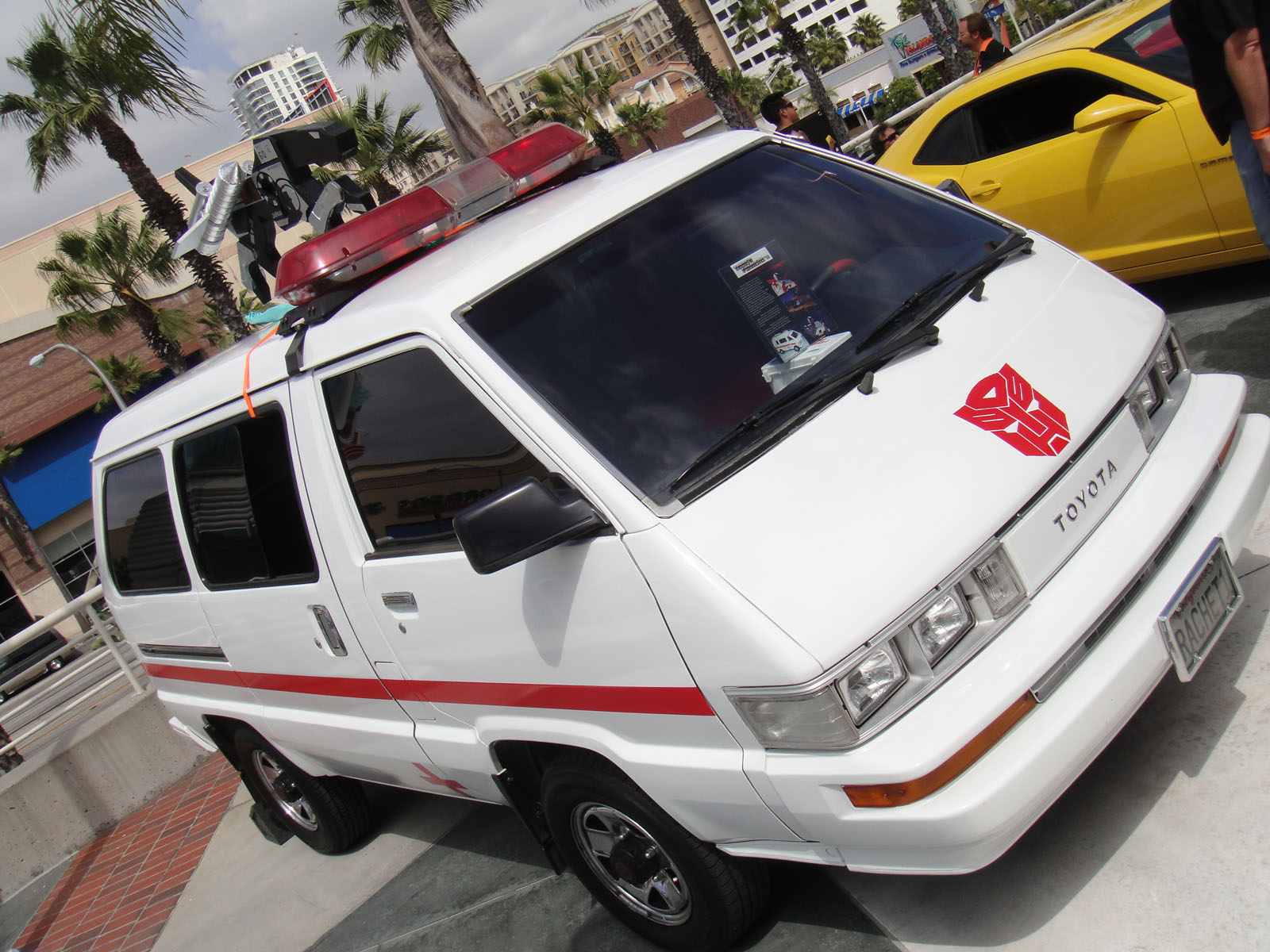 photo 2011 taken by Doug Kline If you're interested in higher resolution versions of my images, contact me via my profile page.